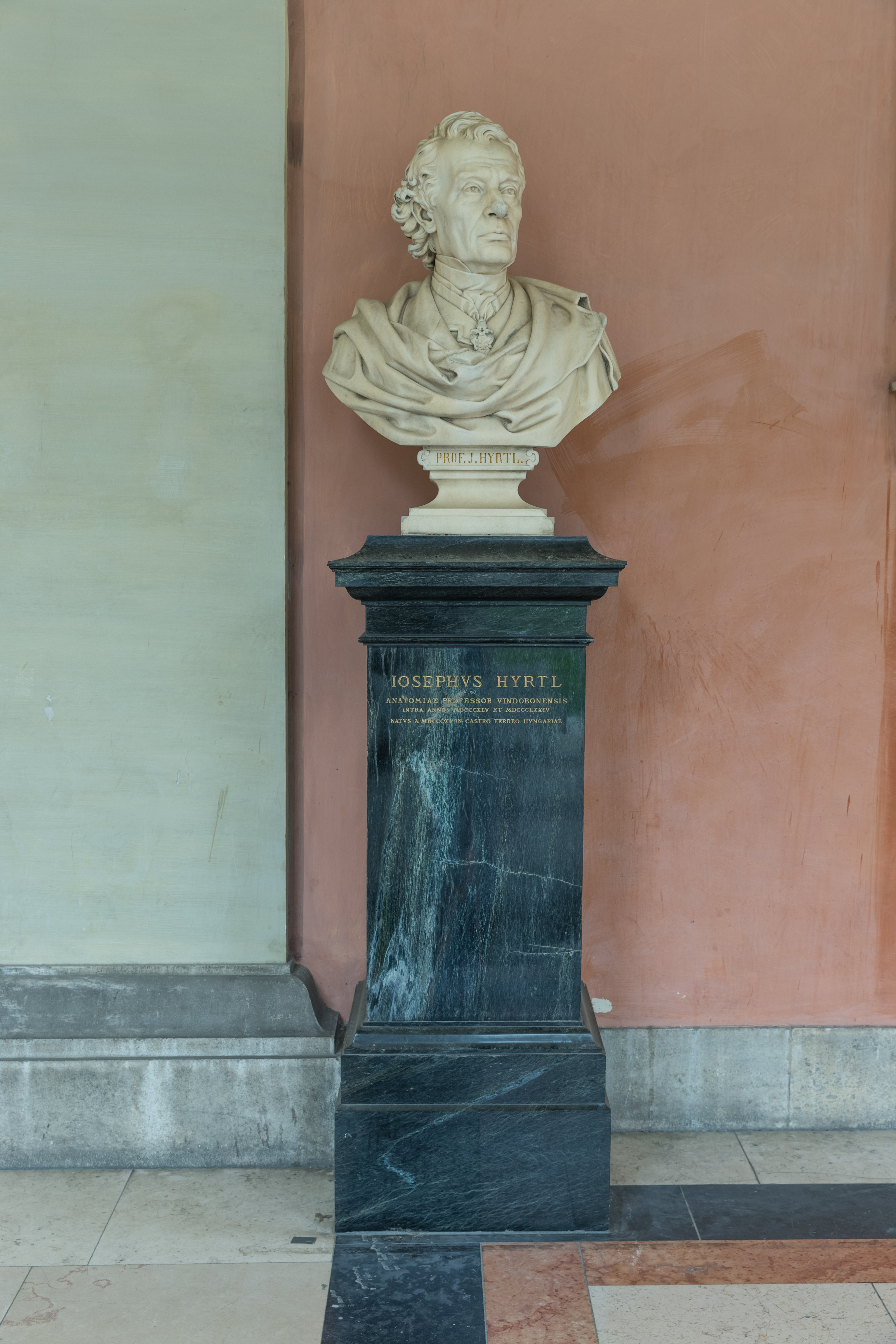 Josef Hyrtl (1810-1894), bust (marble) in the Arkadenhof of the University of Vienna, (Maisel# 113). Artist: Johann Kalmsteiner (1845-1897), unveiled 1889, the only bust which was unveiled in the Arkadenhof during the lifetime of the scientist